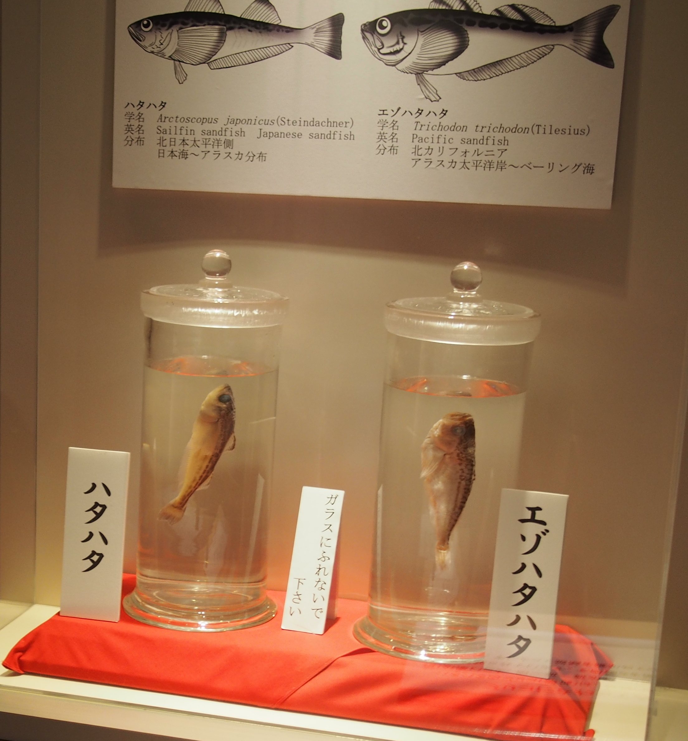 Oga Aquarium